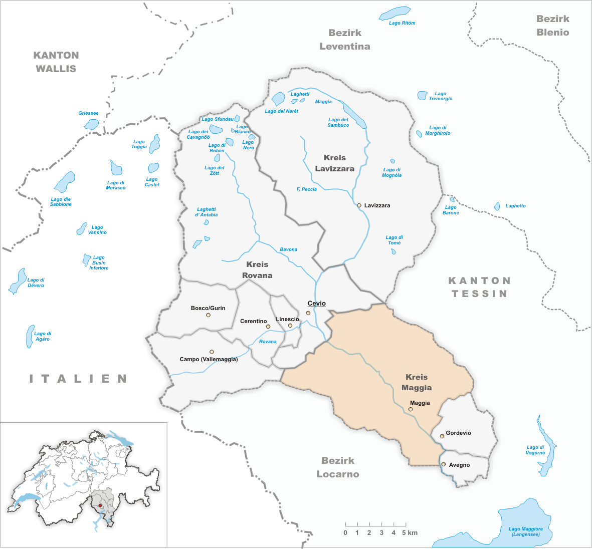 Municipality Maggia